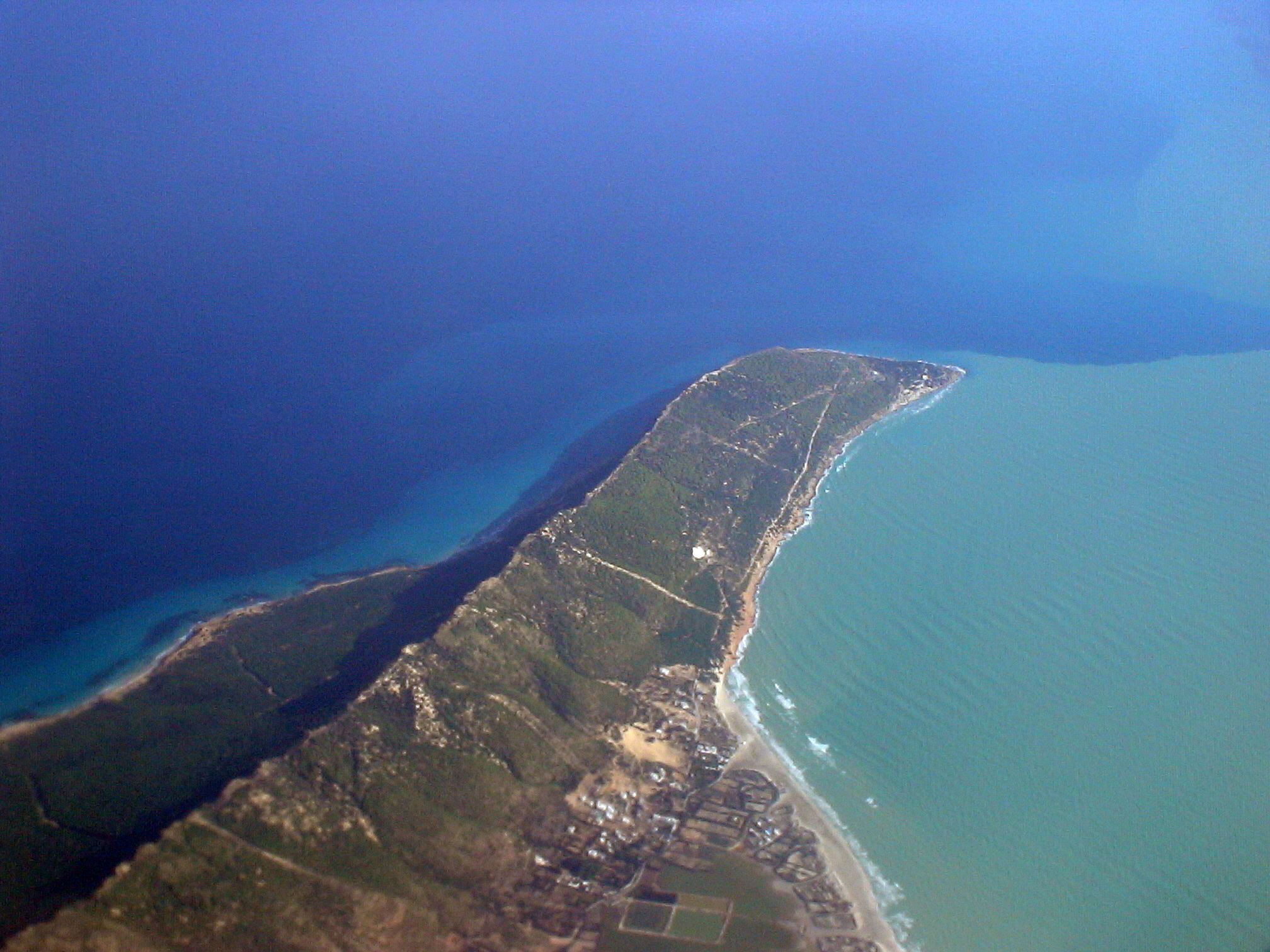 Aerial view of Cap Farina, north of Tunisia